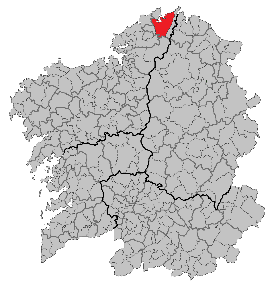 Location map of Ortigueira, A Coruña, Galicia